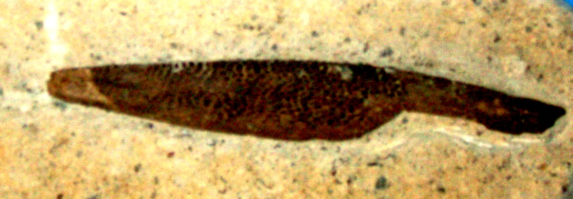 Fossil of Asteracanthus ornatissimus, an extinct shark